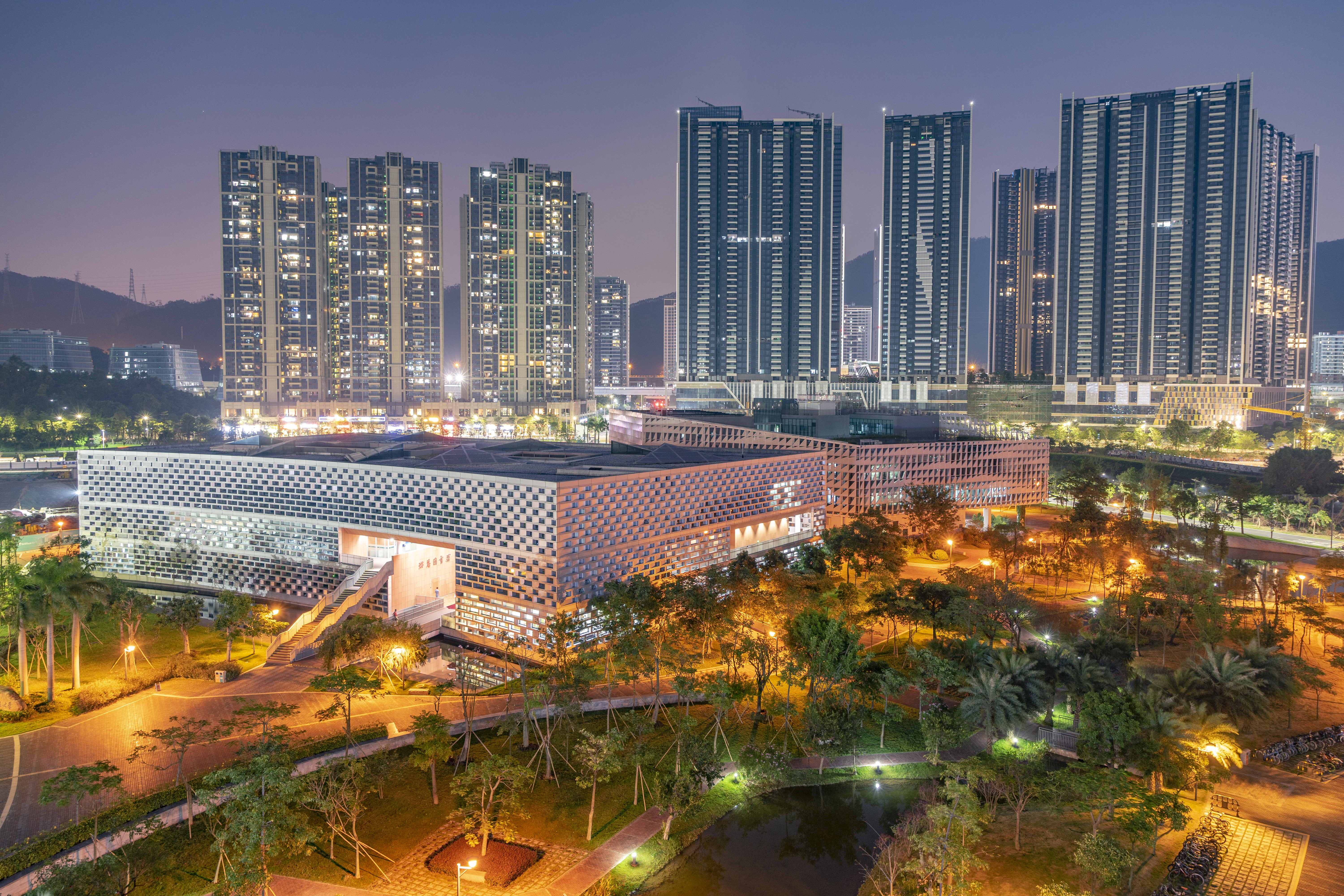 Night of SUSTech